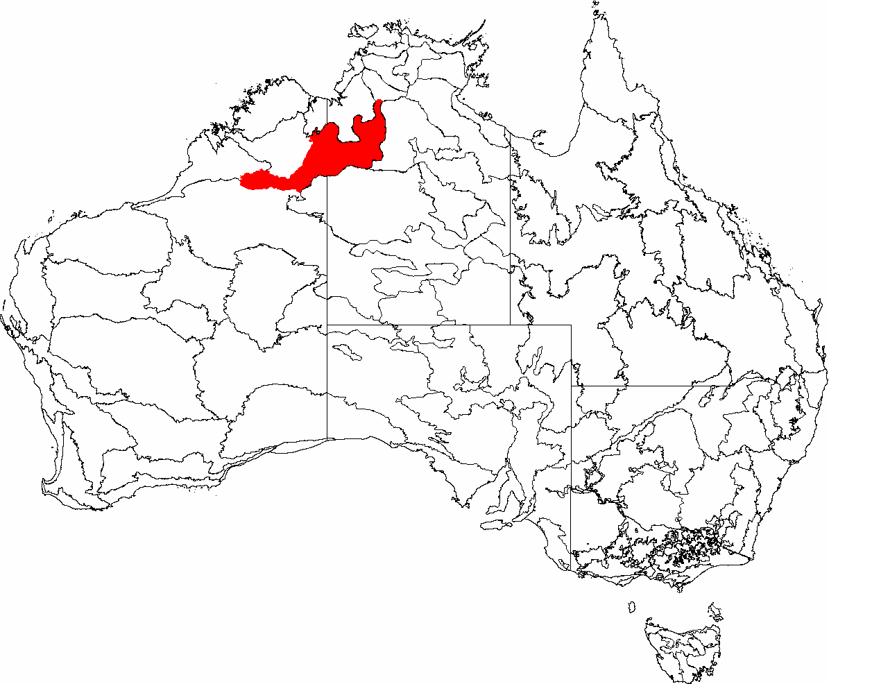 This is a map of the Interim Biogeographic Regionalisation of Australia (IBRA), with state boundaries overlaid. The Ord-Victoria Plains region is shown in red.